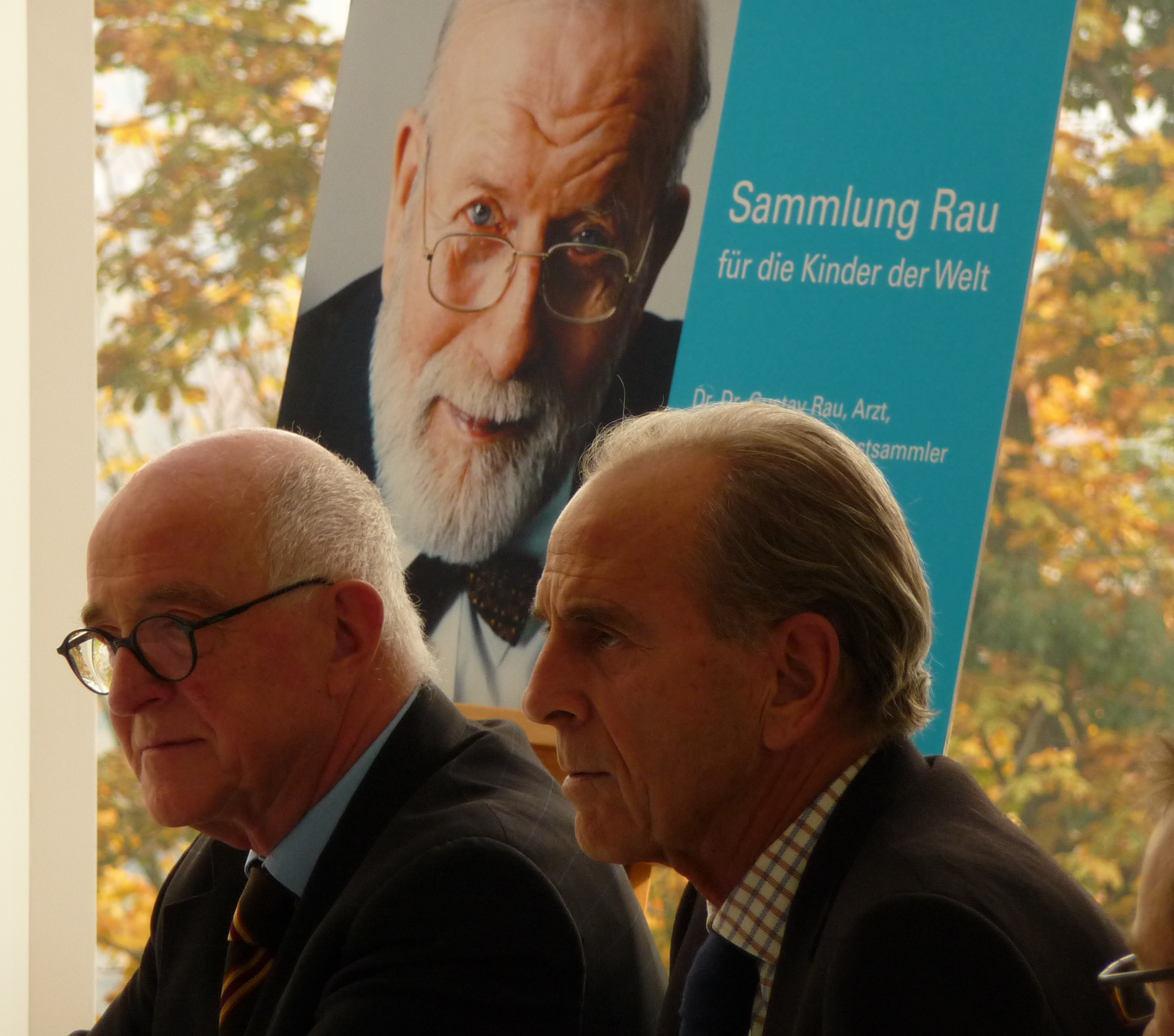 Klaus Gallwitz, director of the Arp Museum Bahnhof Rolandseck, Remagen (Germany), Jürgen Haraeus, president of UNICEF Germany, Poster: Gustav Rau